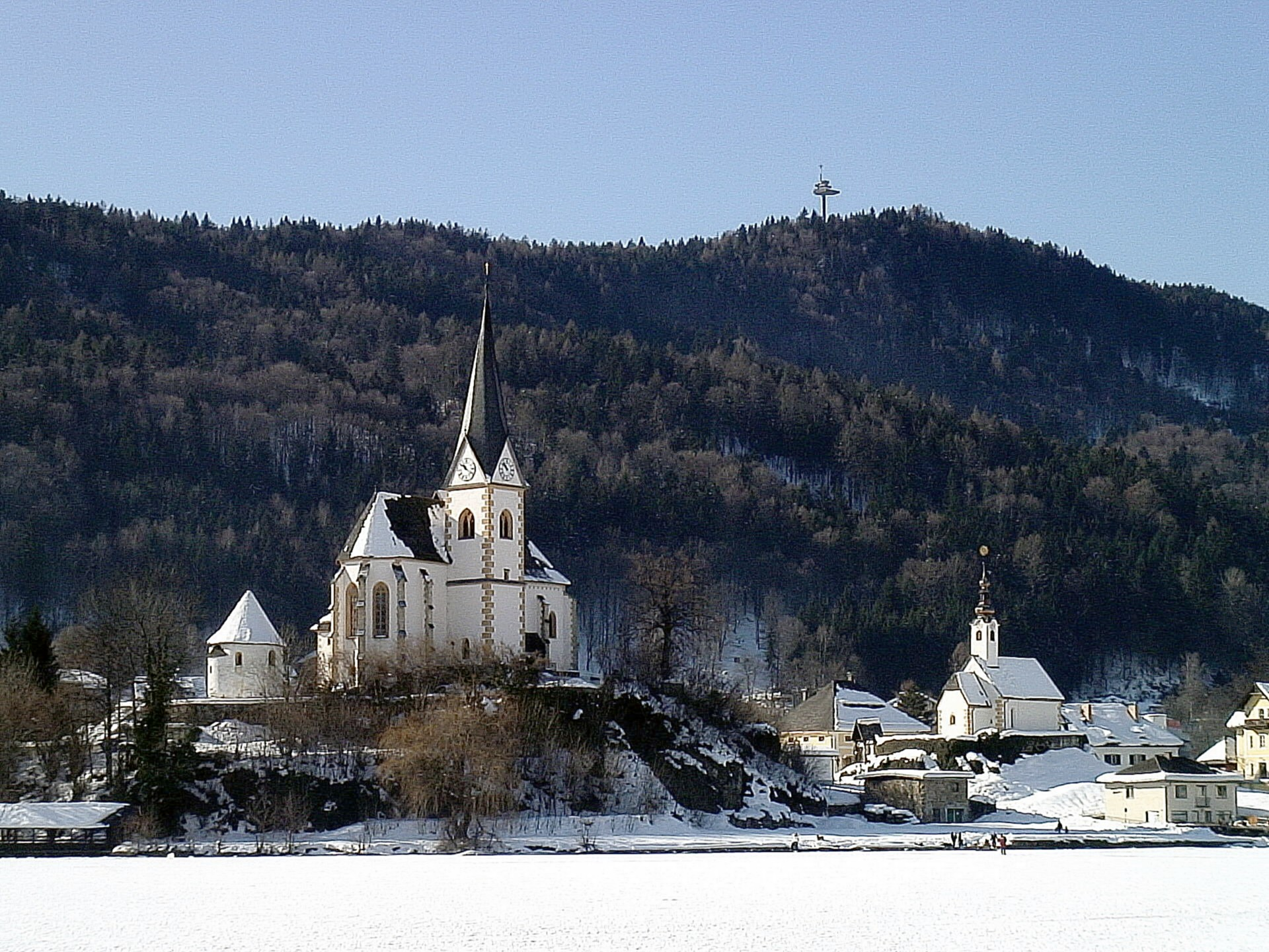 Maria Wörth in Winter (seen from lake Wörth), municipality Maria Wörth, district Klagenfurt Land, Carinthia / Austria / EU